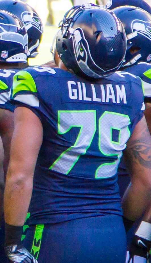 49ers at Seahawks 2014